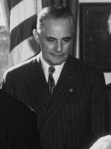 President John F. Kennedy and Others at the Signing of Bill H.J. 225 Public Law 87328, the Interstate Federal Compact for the Delaware River Basin